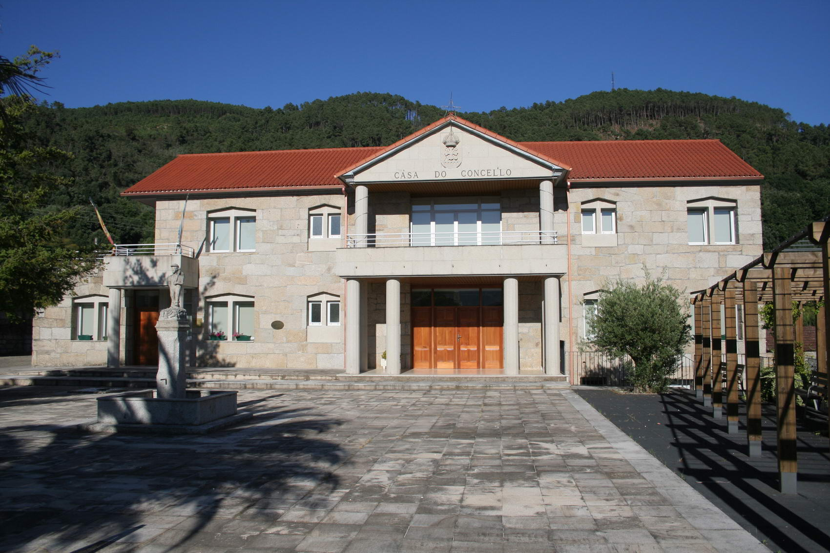 Town Hall in A Arnoia (Spain)